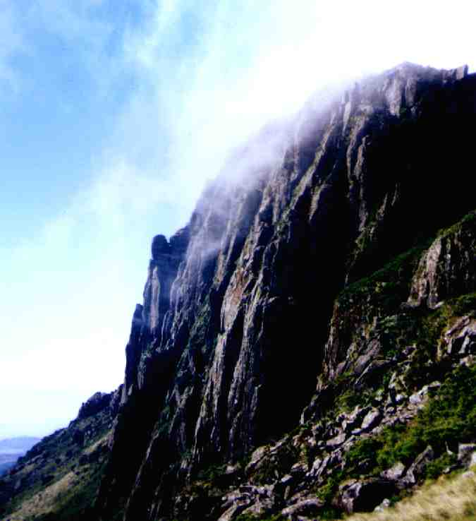 Nyangani summit from the south